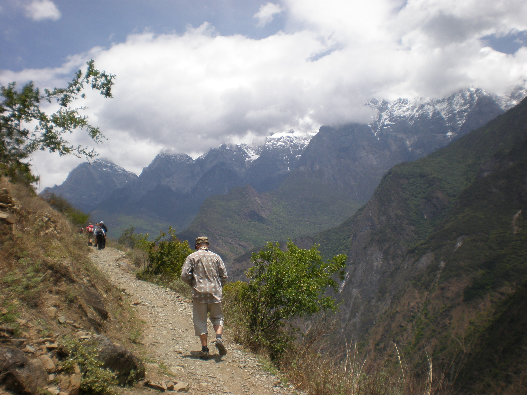 A section of the Tiger Leaping Gorge trail running from Qiatou to Walnut Grove in Yunnan, PRC. At 20 km, it can be hiked in good weather in 2 days.